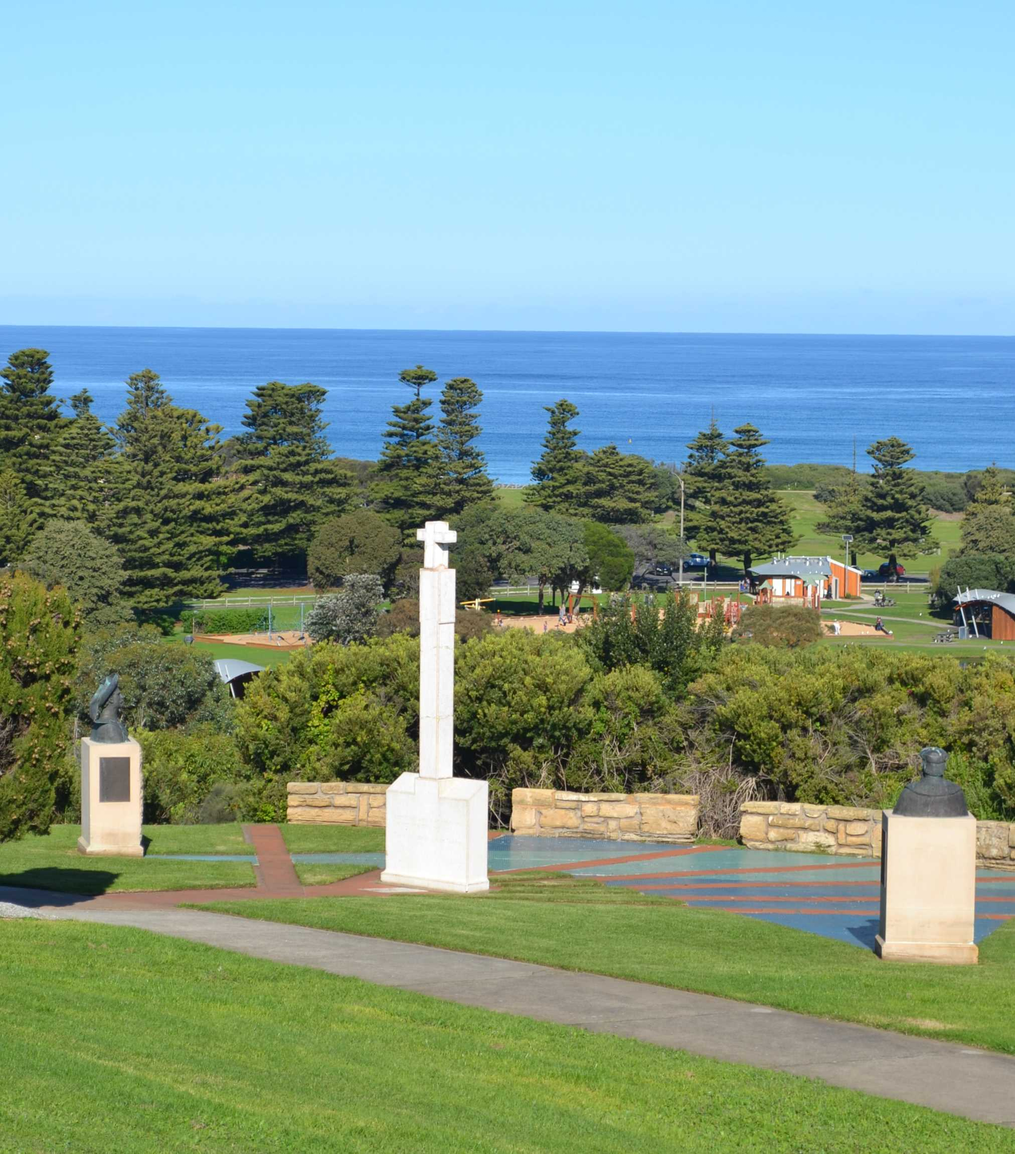 Portuguese monuments at Warrnambool, Victoria, Australia, including statues of Vasco da Gama and Prince Henry the Navigator